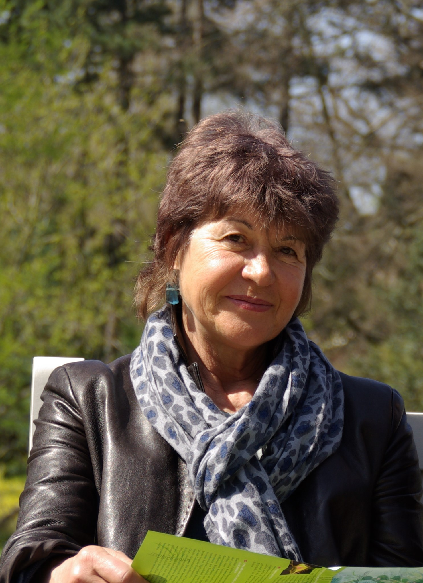 Barbara Dürk in 2010